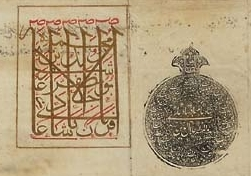 Tughra from an imperial order, or farman, from the time of Shah 'Alam II The tughra reads firman-e abu'l muzaffar jalal al-din muhammad shah 'alam padshah-e ghazi